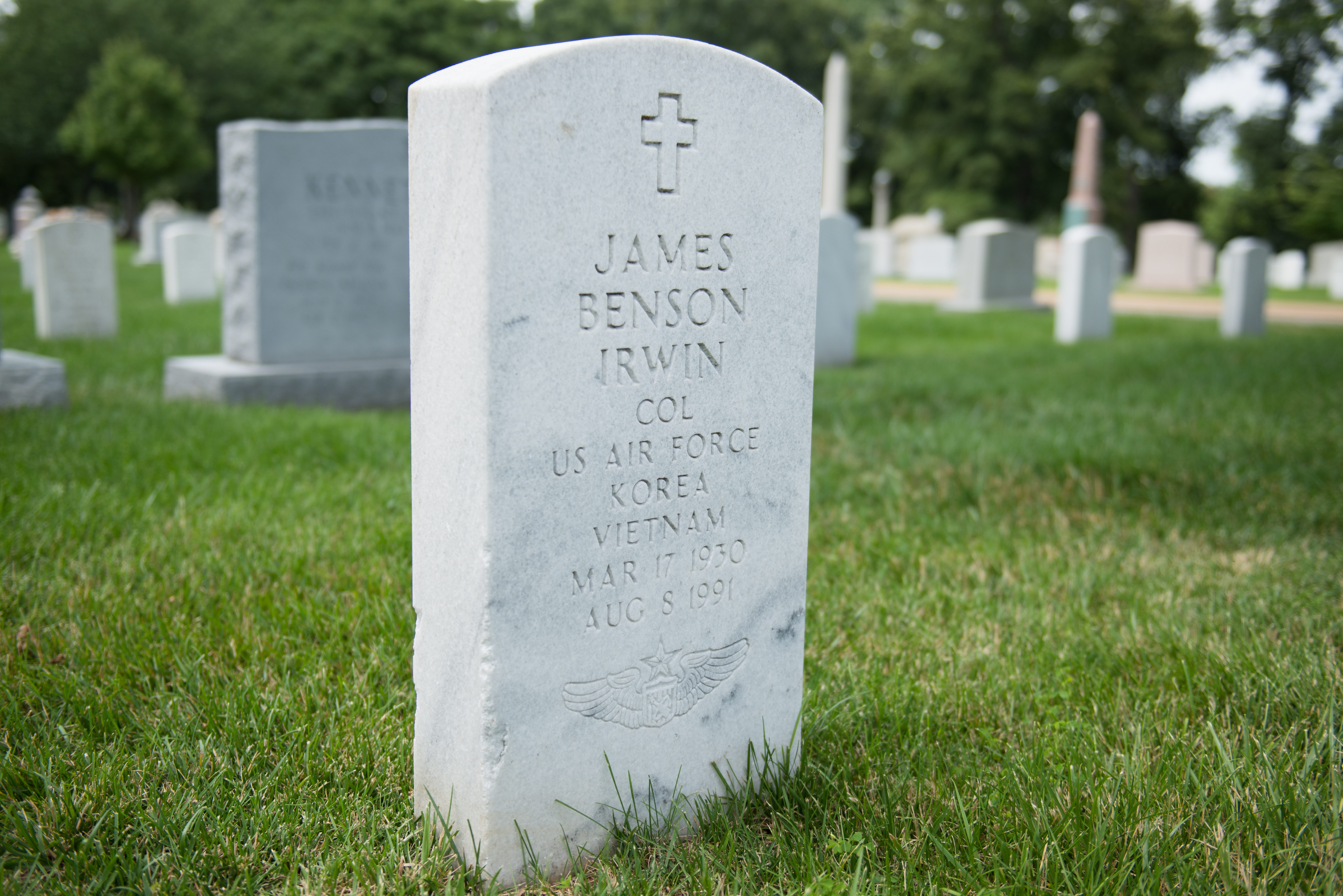 Col. James Benson Irwin, U.S. Air Force, was interred Aug. 15, 1991. Irwin, former Apollo 15 astronaut, died of a heart attack Aug. 8, 1991, in Glenwood Springs, Colo. He was buried with full Air Force honors in Section 3, Grave 2503-G-2 in Arlington National Cemetery. (U.S. Army photo by Rachel Larue/released)